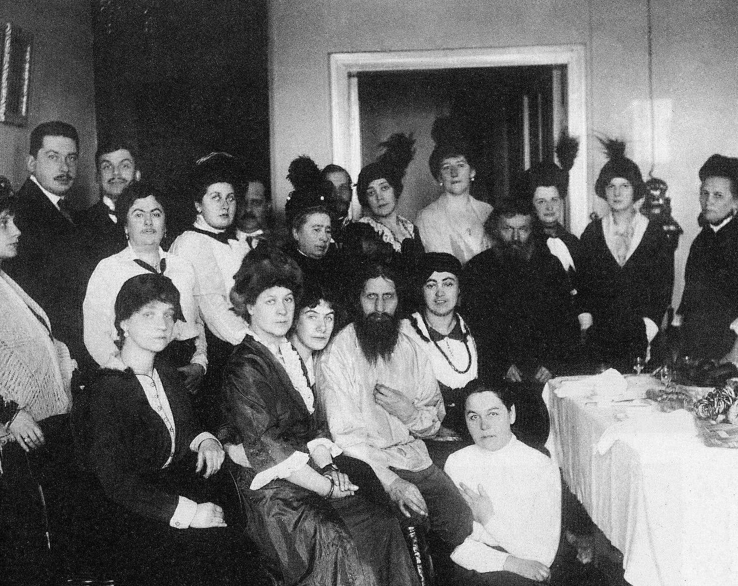 Rasputin and his admirers, 1914. His telephone can be seen on the right. This image has been widely reproduced in the press and various books since 1917.